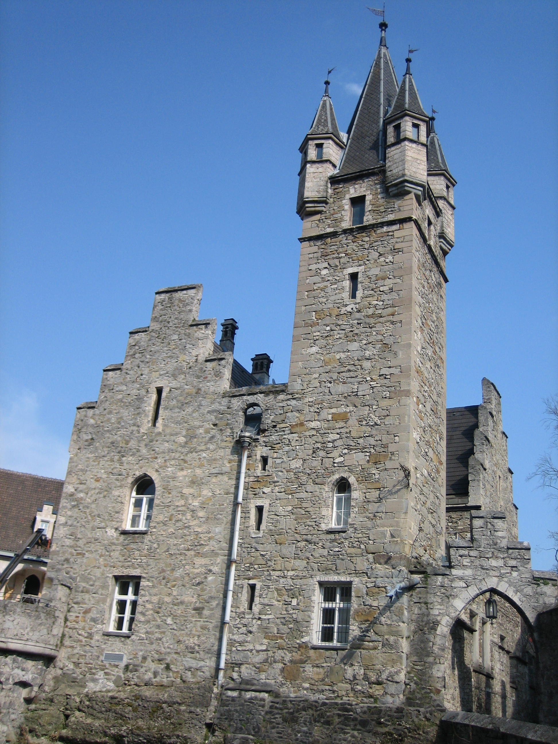 Rothschild-Castle, Waidhofen an der Ybbs, Lower Austria, Austria: Neo-Gothic “Stöckel”-building with tower. Constructed 1885-1890.